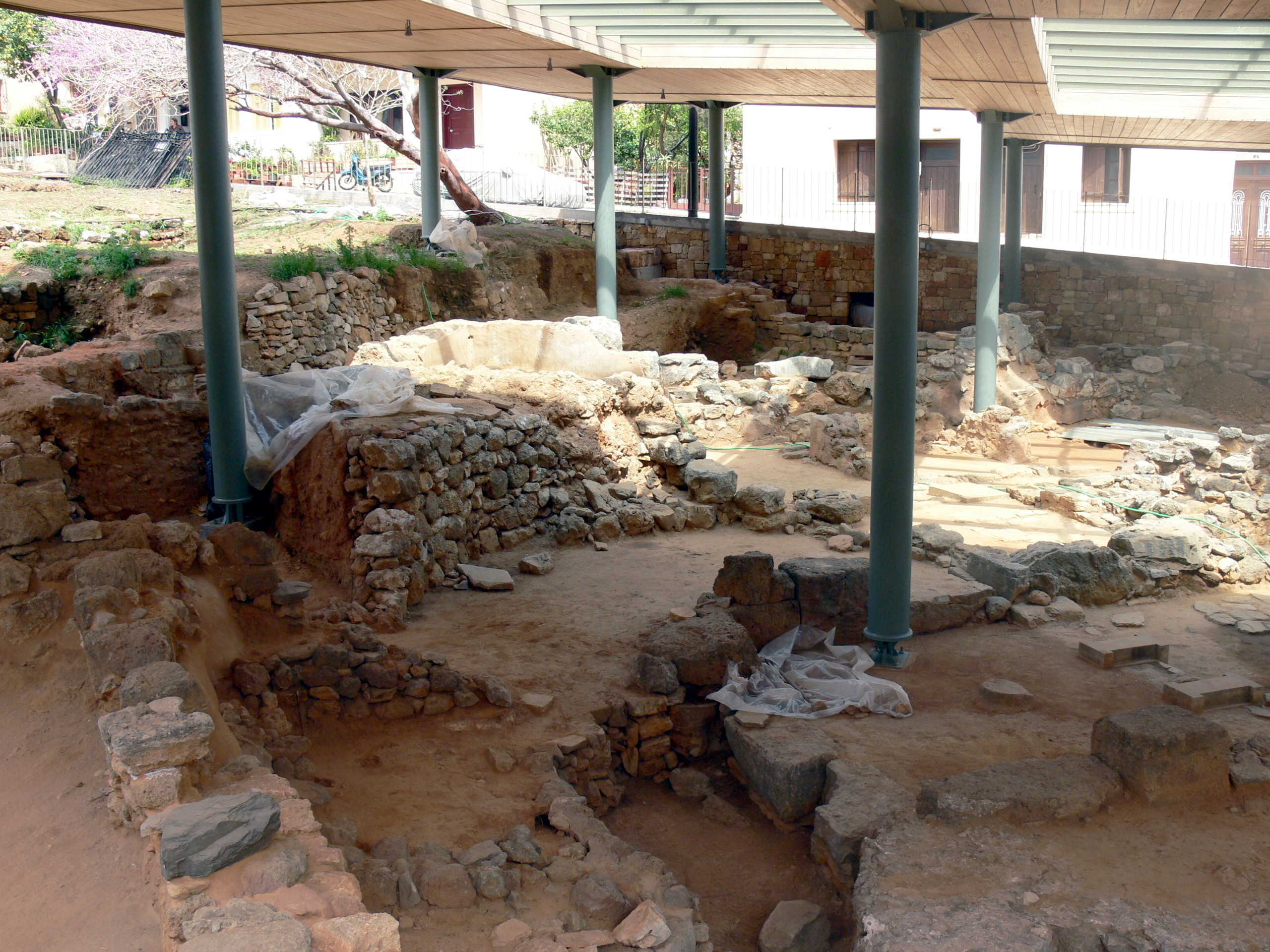 Chania ( Crete ). Minoan excavations in Kastelli-quarter.